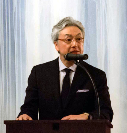 Hiroshi Senju, Director of Koyodo Museum of Art, Kyoto University of Art and Design, was given the Minister's Commendation from Reiichirō Takahashi, Consul General to New York, at the Consul General's Official Residence in New York on November 3, 2016.